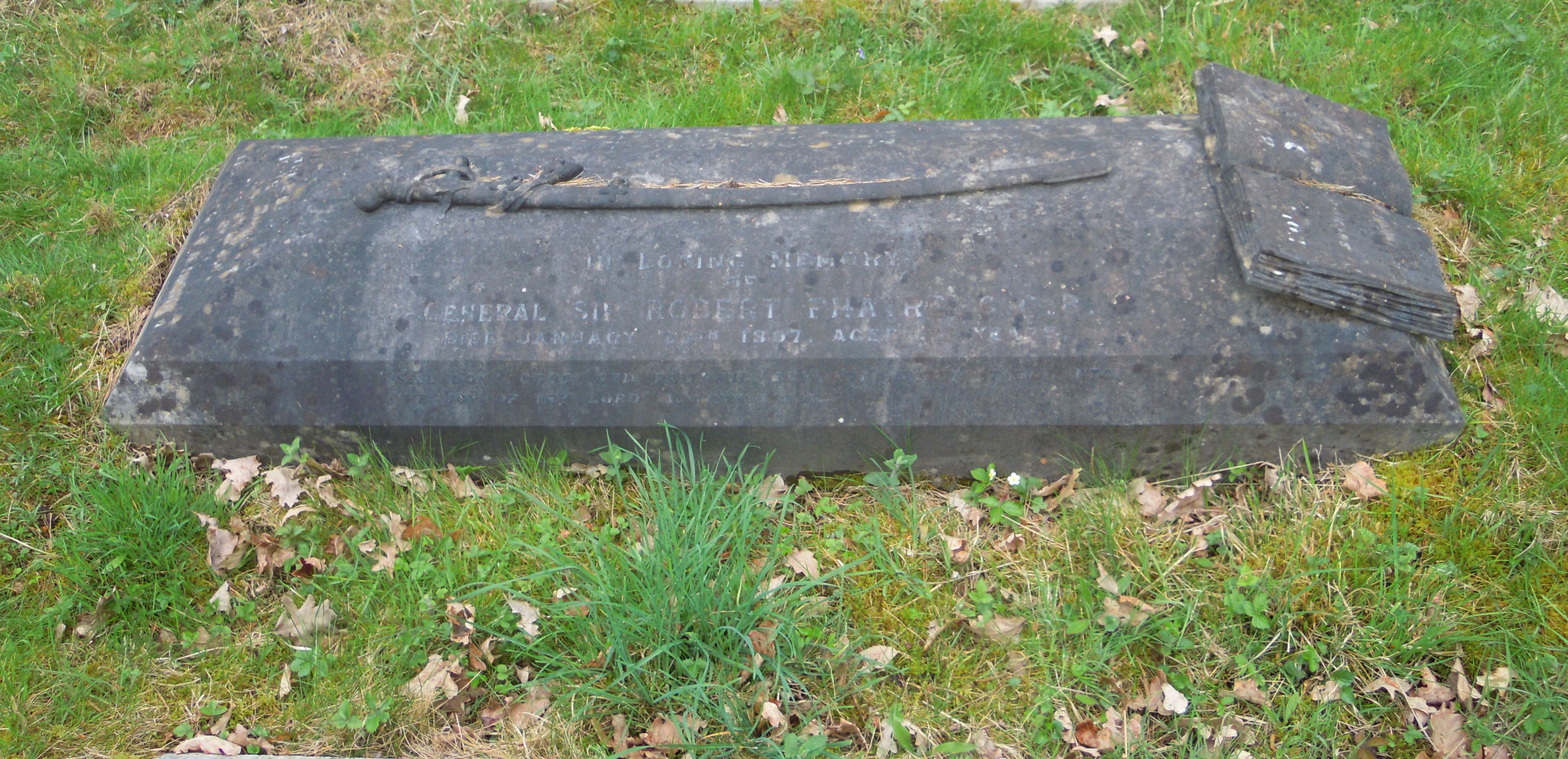 Grave of General Sir Robert Phayre (1820-1897) in Brookwood Cemetery